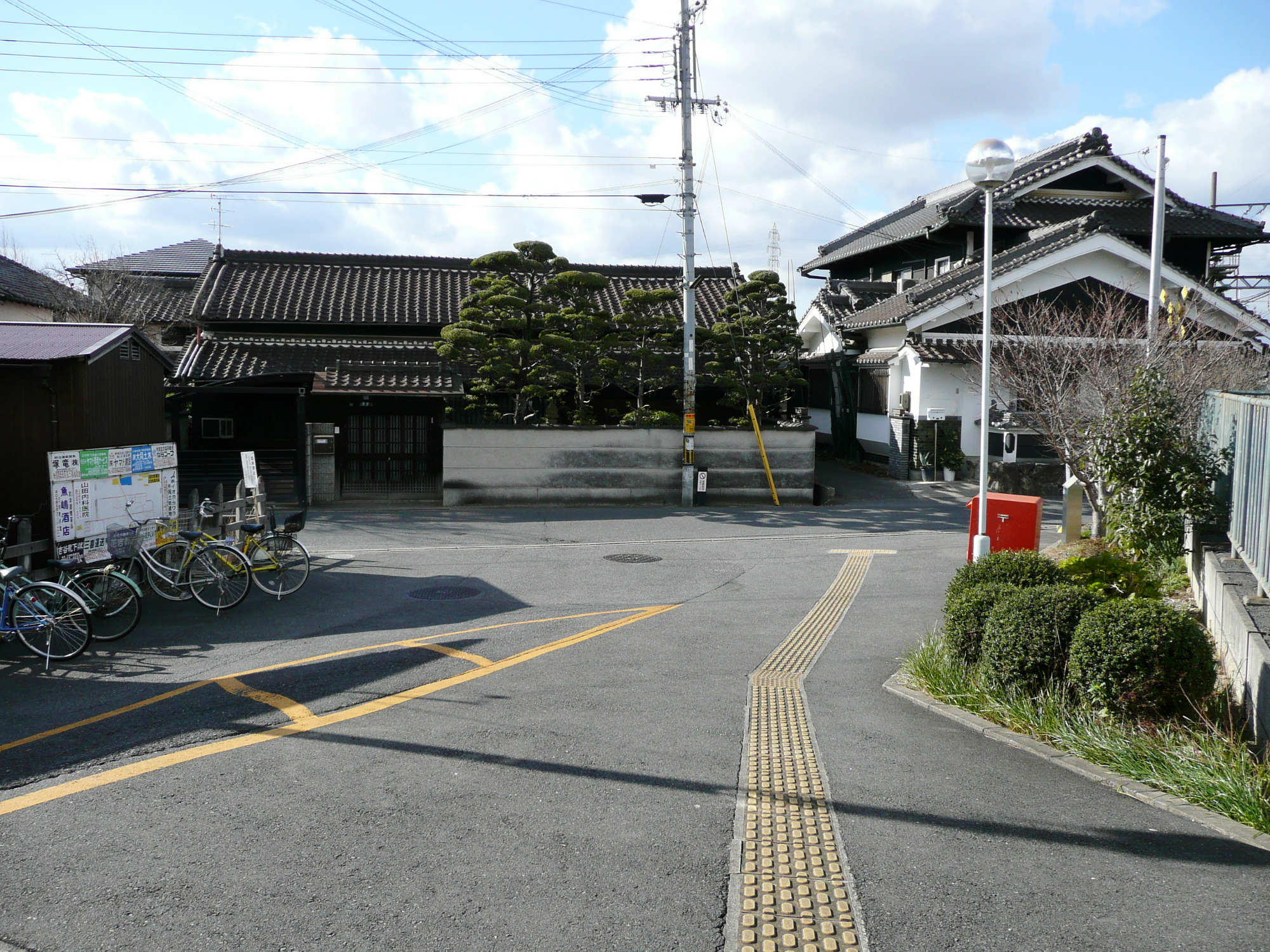 Kinki Nippon Railway,Tawaramoto Line,Kuroda Station plaza.